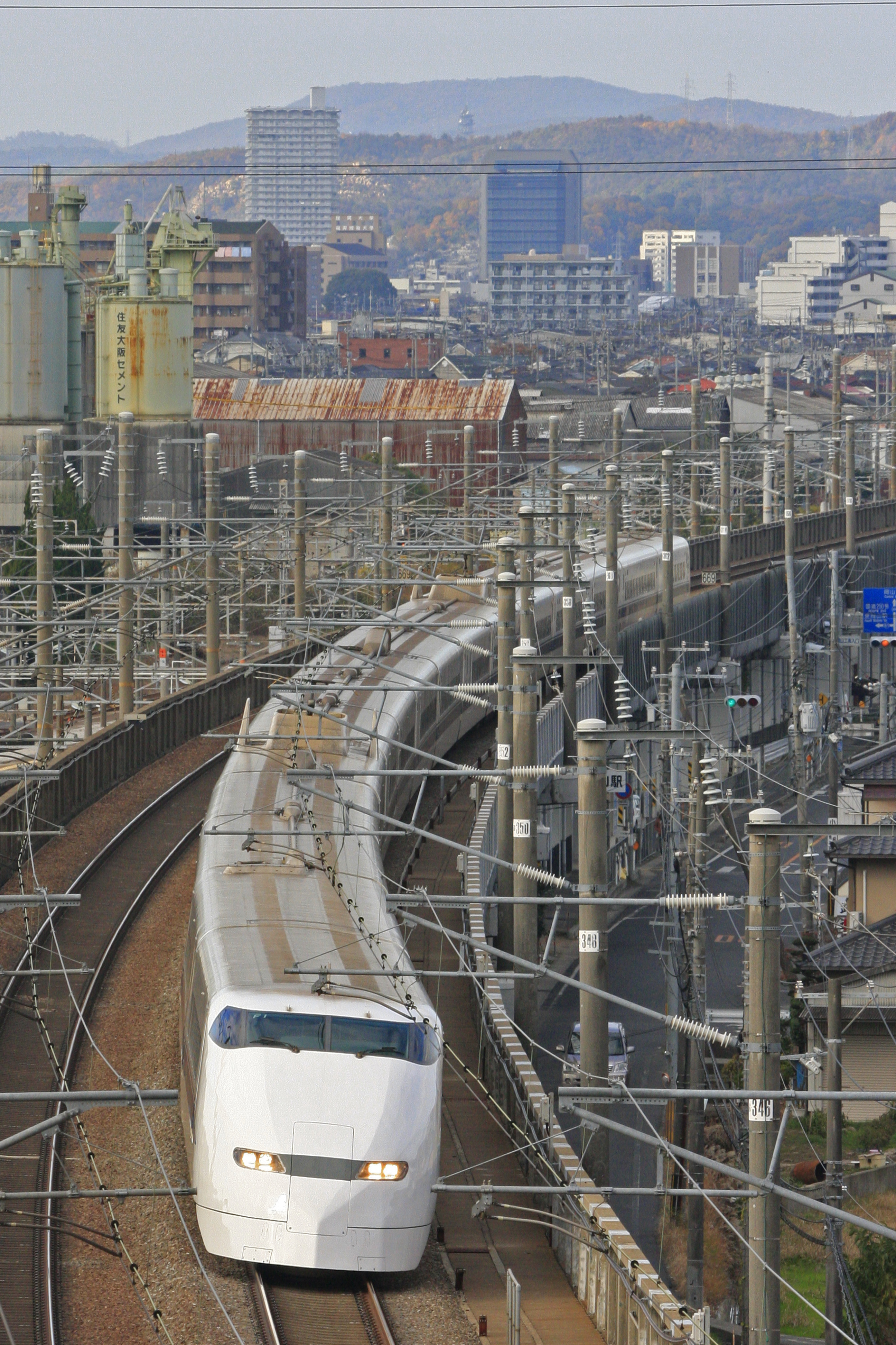 JRW 300 Series Shinkansen (F1)